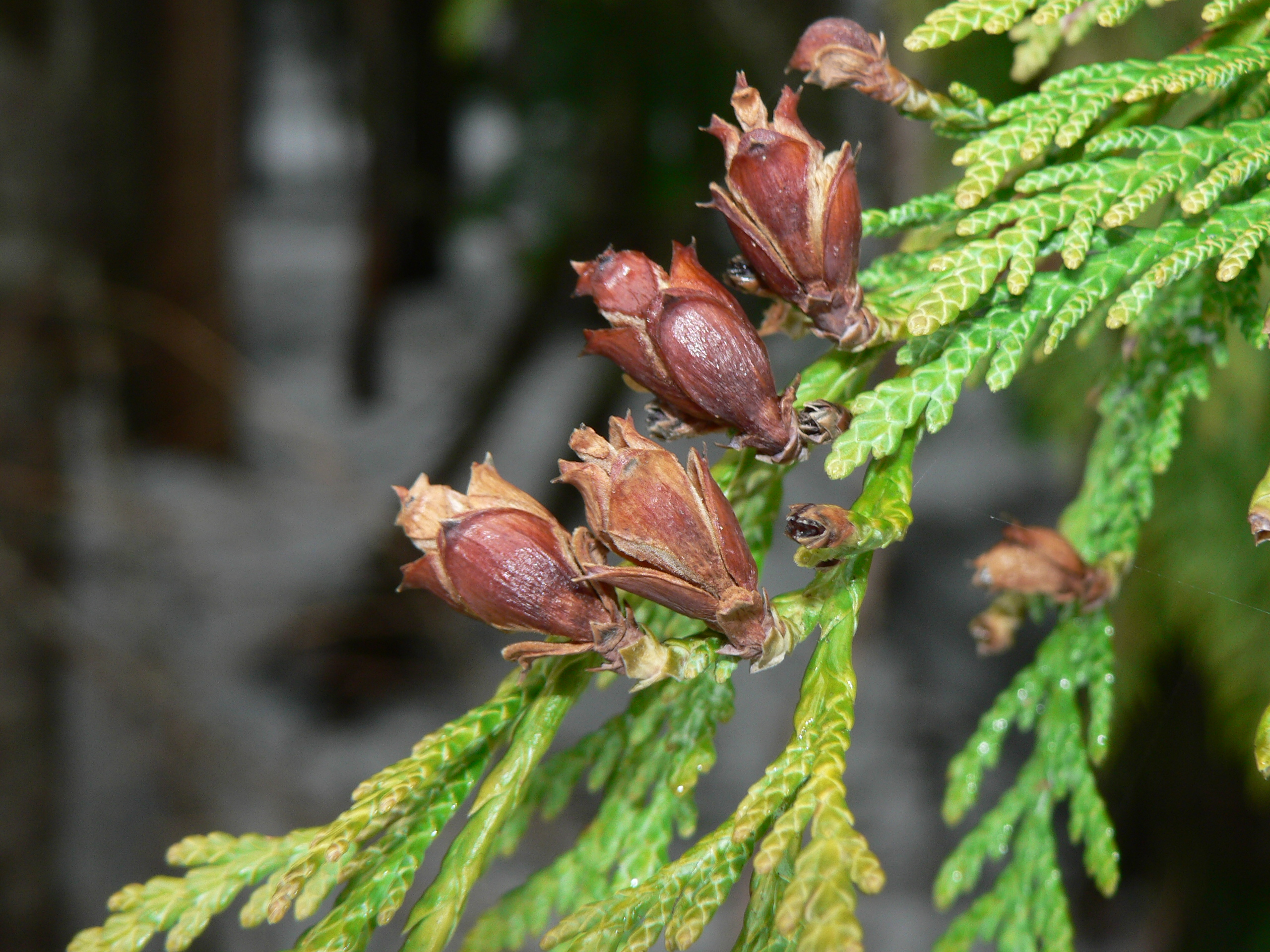 Western Red Cedar, Canoe Cedar female cones